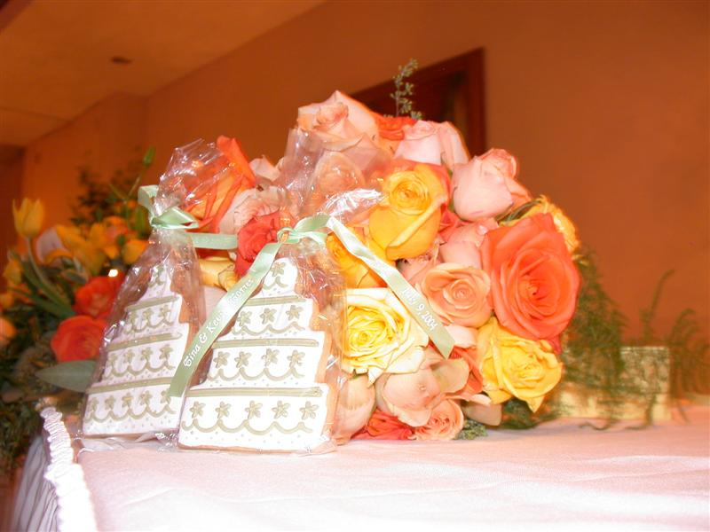 cookies_bouquet: Tina and Kevin's cookies and Tina's bouquet.